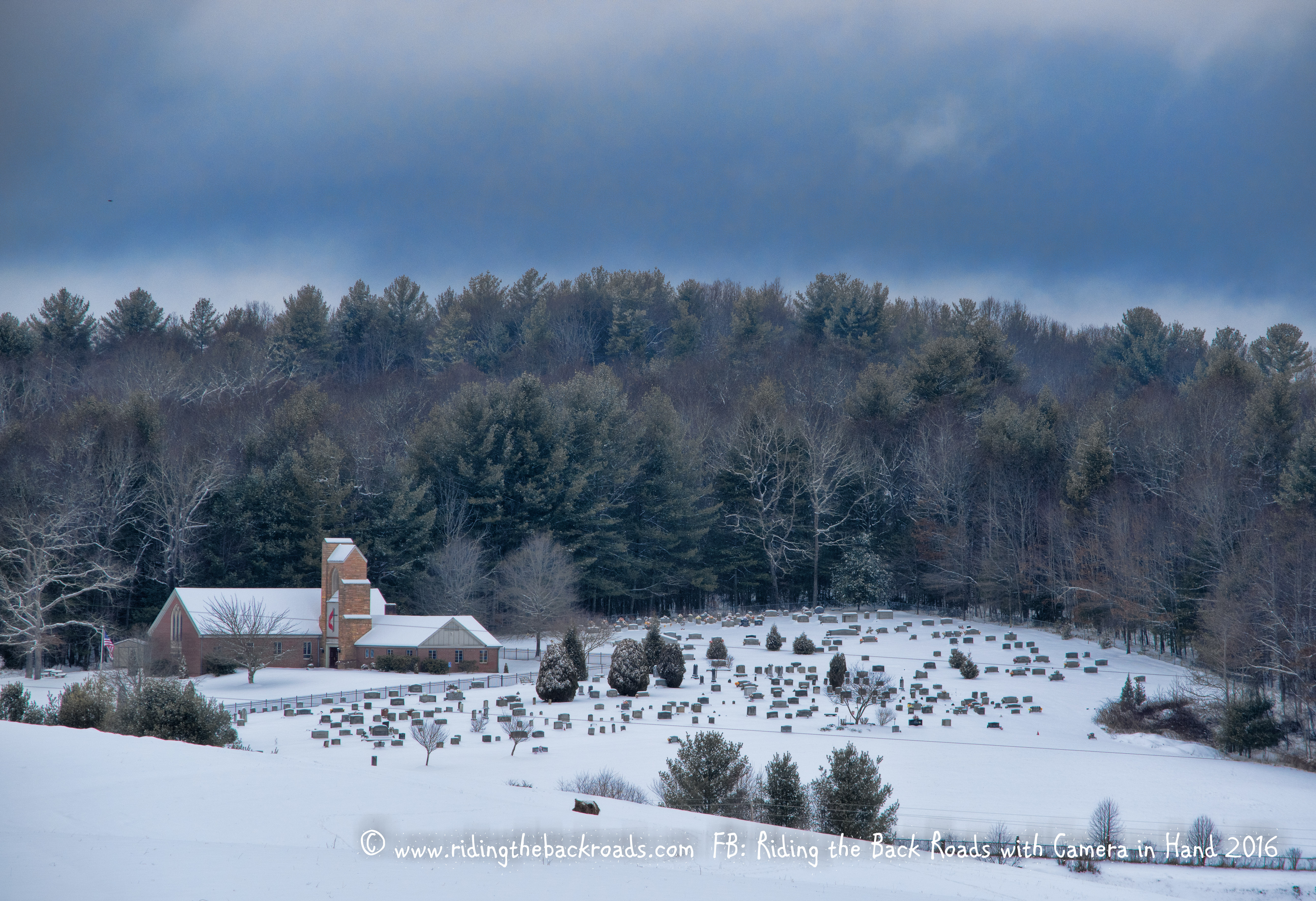 Piney Creek Methodist Church Piney Creek, NC